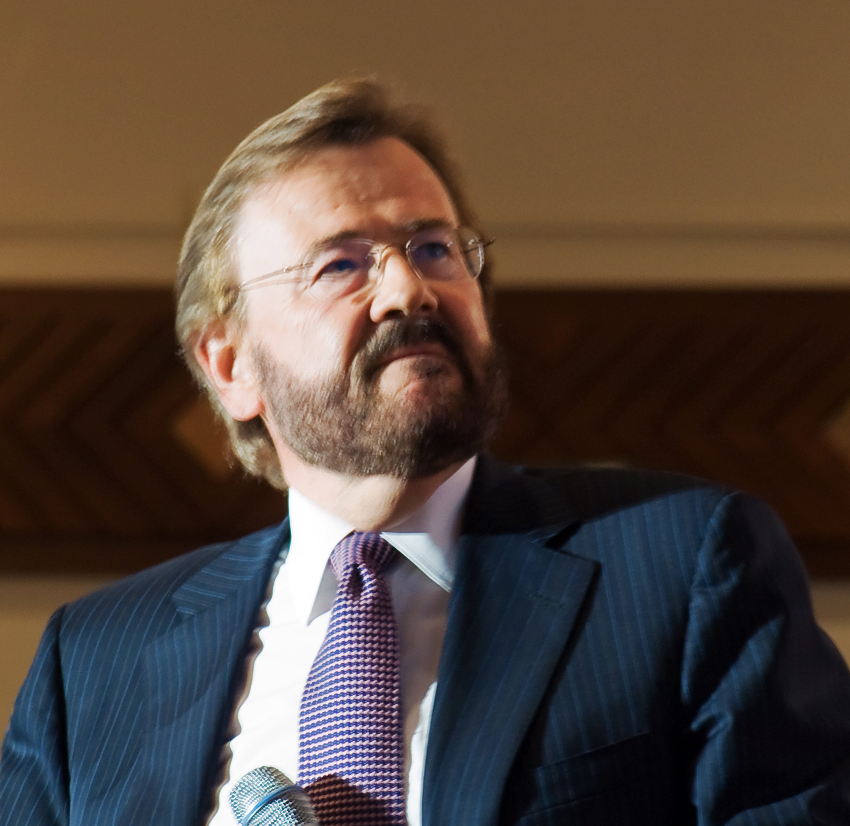 MP Garth Turner listens attentively to Opposition leader Dion's response to a question from a member of the general public during a town hall meeting in Oakville, Ontario.